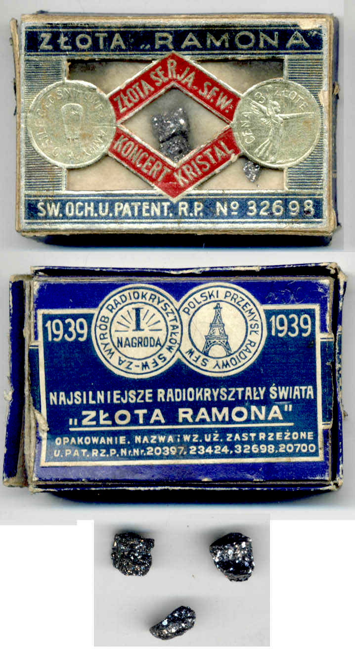 Crystals of galena sold for use in cat's whisker detectors, an antique electronic component used in crystal radio receivers from about 1906 to the 1940s. In a cat's whisker detector, the face of the crystal was touched by a fine wire, forming a point-contact semiconductor diode, which rectified the radio waves in the receiver to extract the audio signal from the radio frequency carrier wave. The crystals varied in their effectiveness, so several crystals often had to be tried to find a sensitive one. The text on the lower box says: "'Ramona' Gold" "World's most powerful radio crystal" "Polish Radio Industry S.F.W."